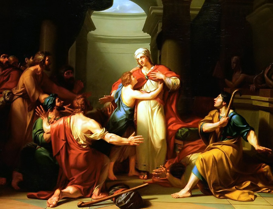 Joseph Recognized by His Brothers (1788) by Jean-Charles Tardieu, also called "Tardieu-Cochin" (3 September 1765 – 3 April 1830)